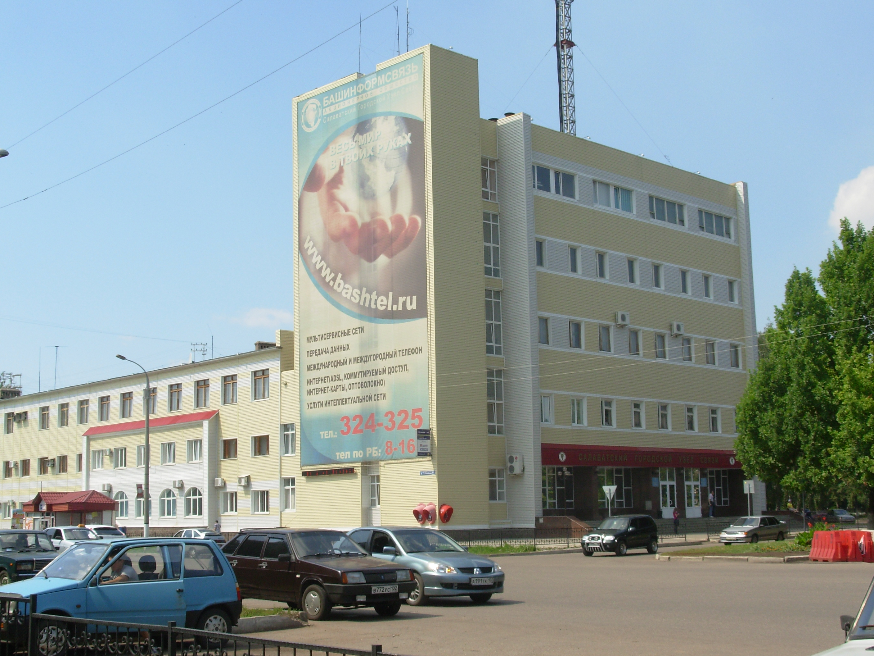 street